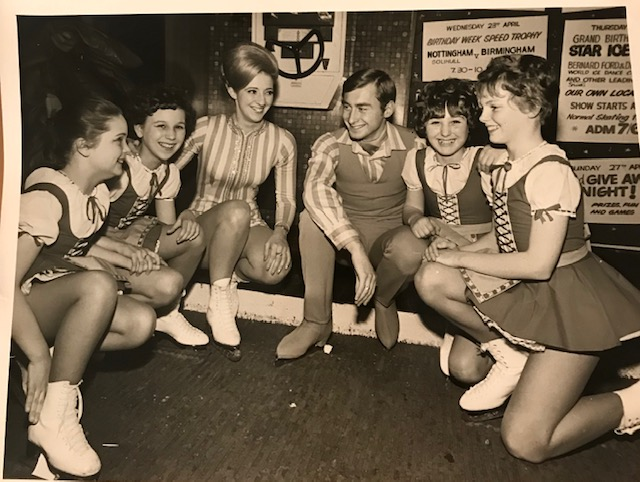 Birmingham Ice Skating Sound of Music Dance Gala Team April 1969.